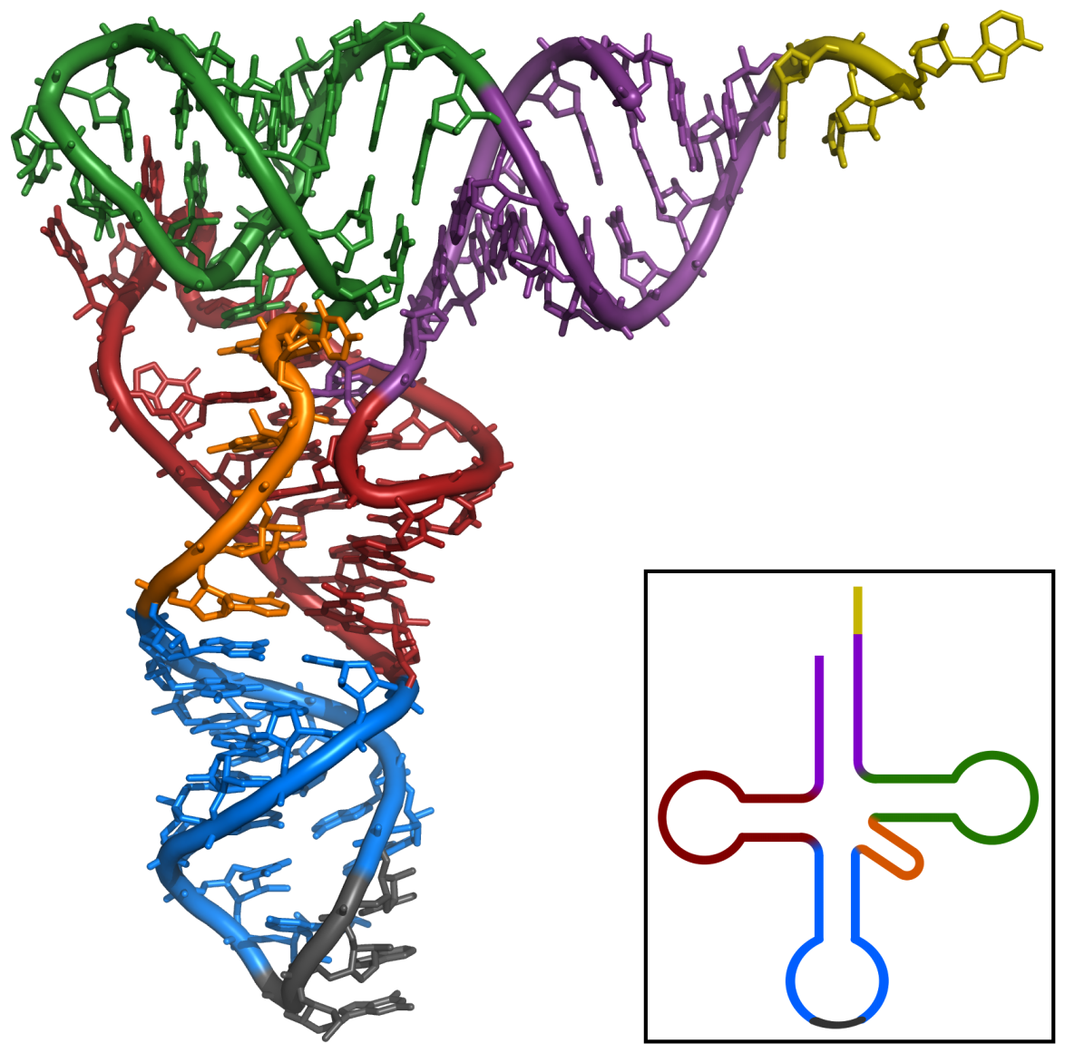 X-ray structure of the tRNAPhe from yeast. Data was obtained by PDB: 1ehz​ and rendered with PyMOL. violet: acceptor stem wine red: D-loop blue: anticodon loop orange: variable loop green: TPsiC-loop yellow: CCA-3' of the acceptor stem grey: anticodon